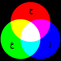 Original Author: Mike Horvath translated into Arabic by ترجمان05